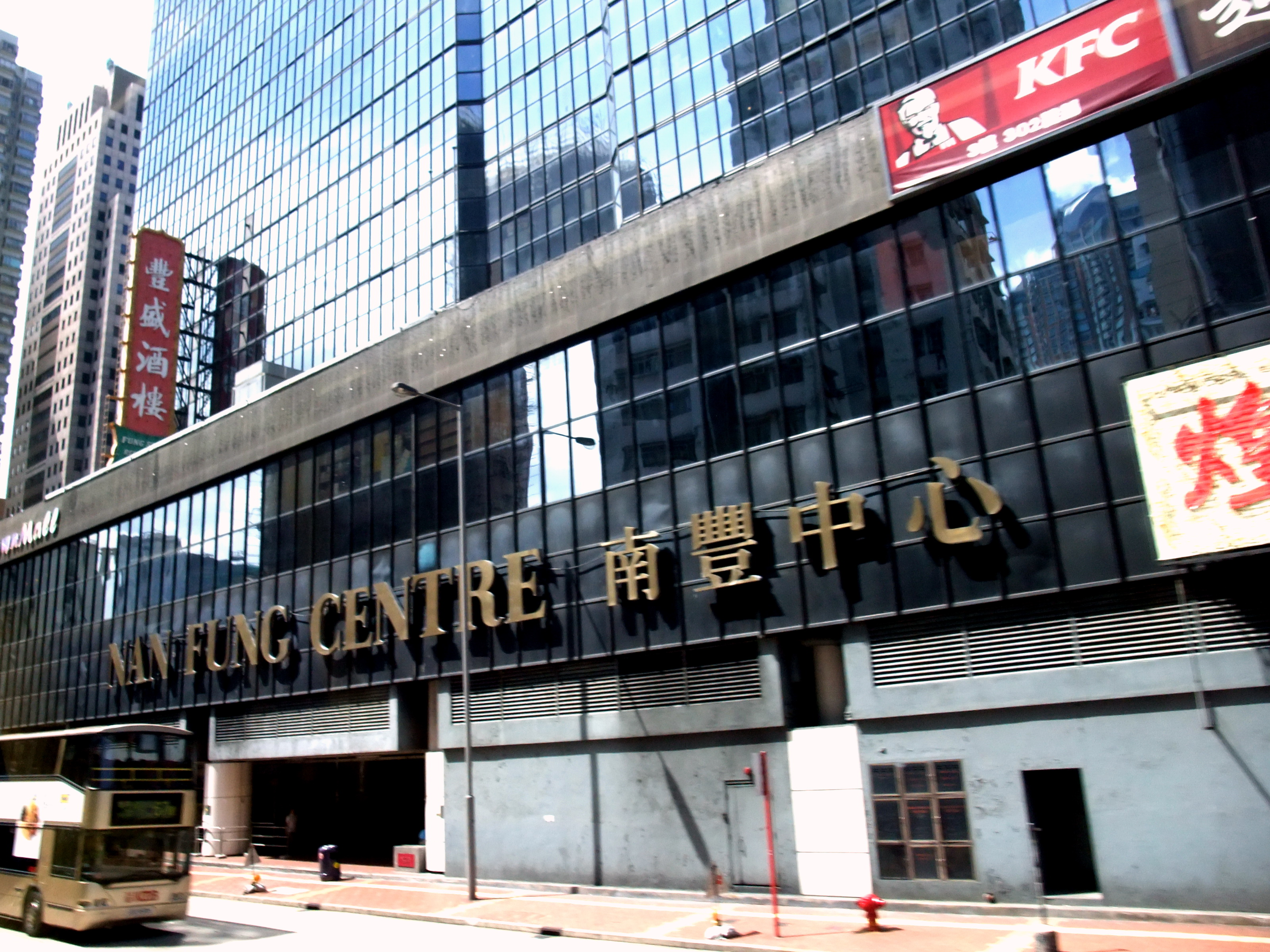 Nan Fung Centre (Tsuen Wan, Hong Kong)